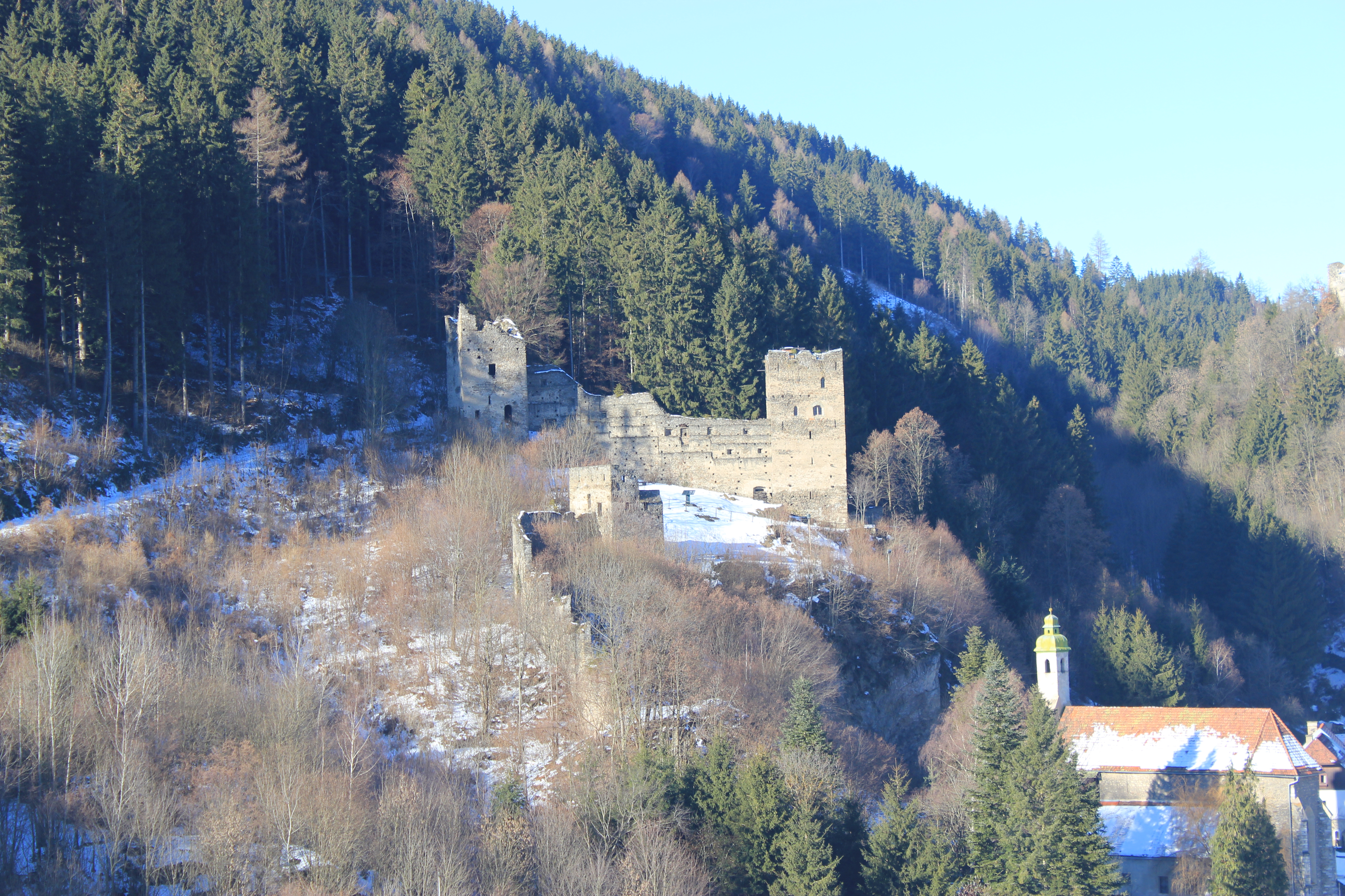 Rotturm-castle and Heiligblutkirche in Friesach